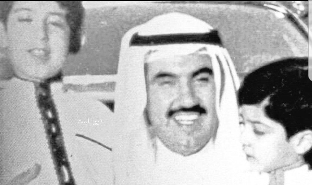 الشيخ أحمد الناصر